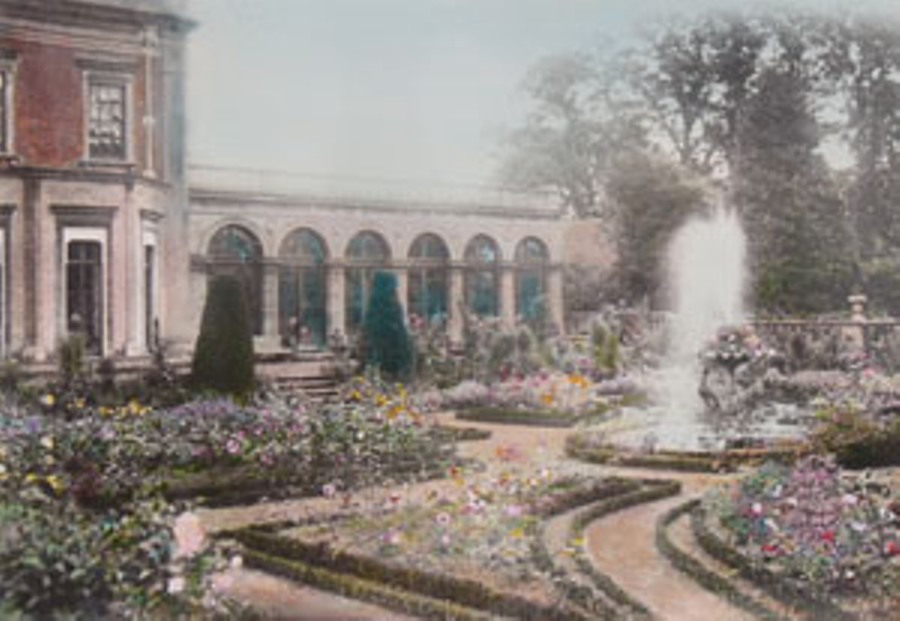 The garden at the Lawn Manor House, Swindon, UK